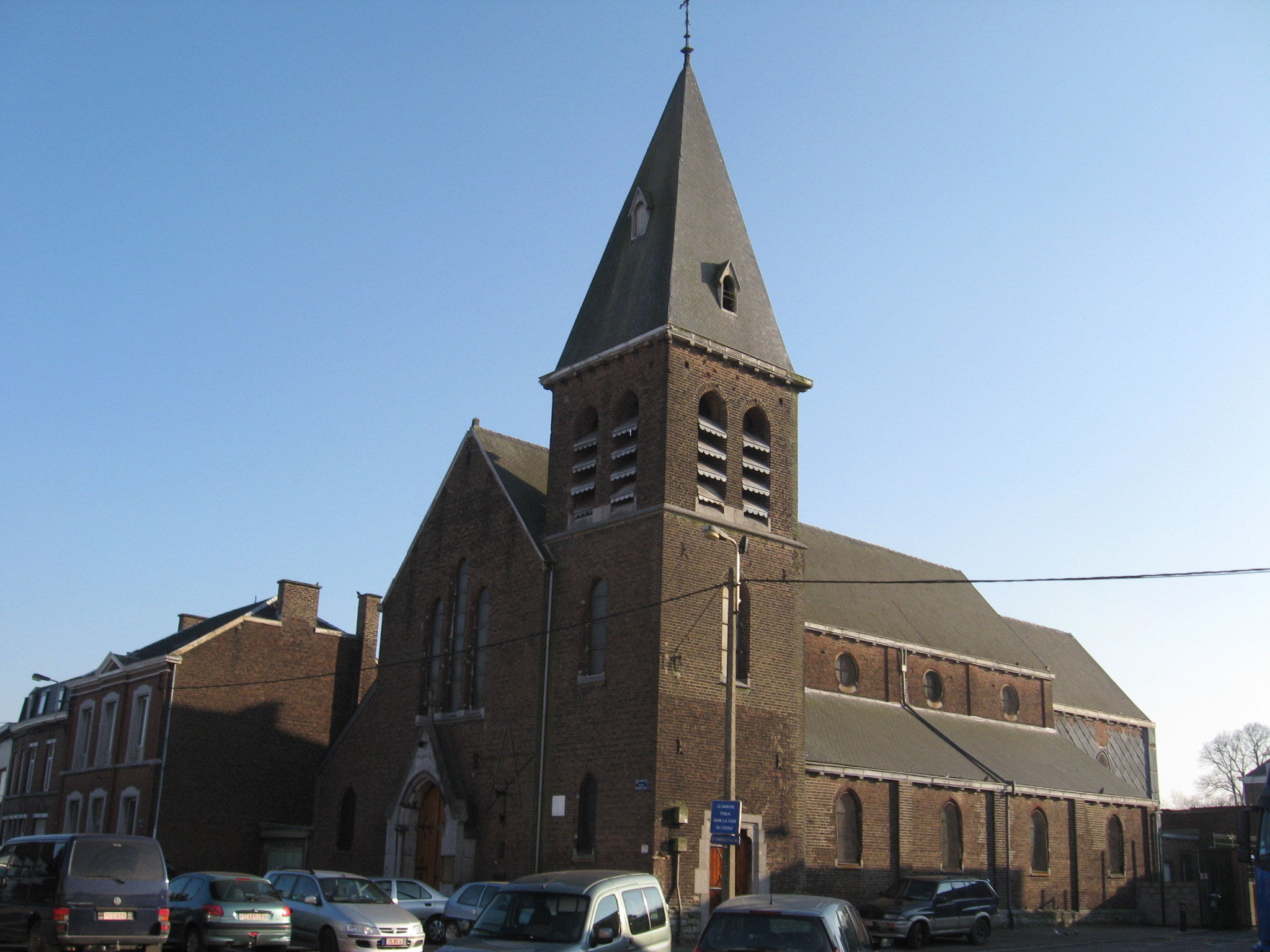 Church of Saint Lawrence in Heusay, Beyne-Heusay, Liège, Belgium